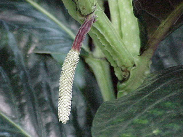 Species: Piper magnificum Family: Piperaceae Image No. 1